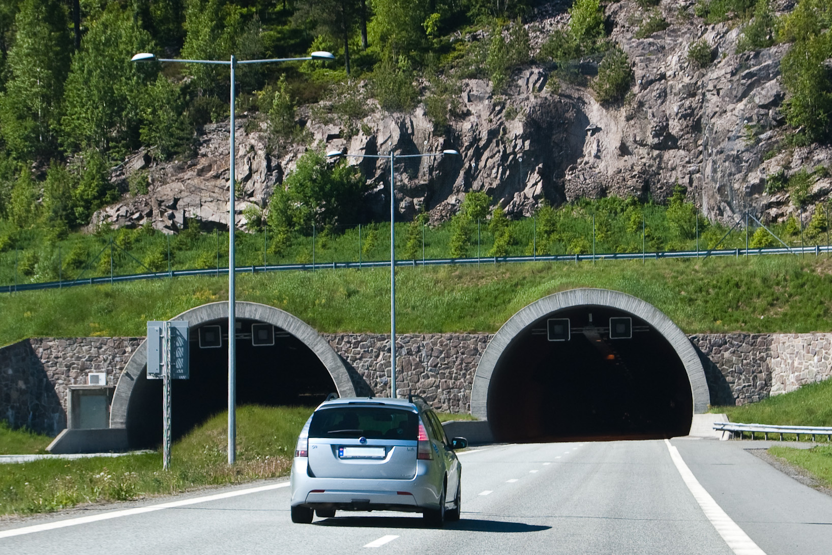 Løkentunnelen, a tunnel on E18 in Vestfold, Norway.